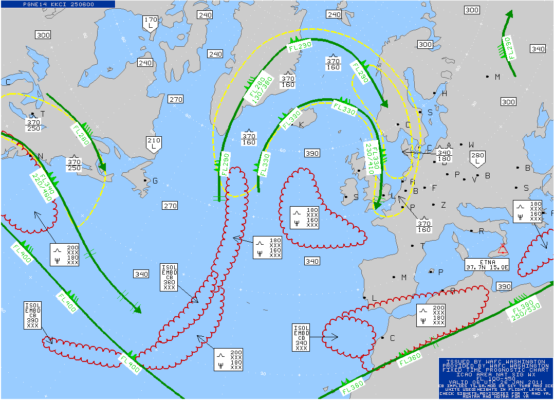 Mid Levels significant weather chart (SIGWX) issued for trans-Atlantic flight.